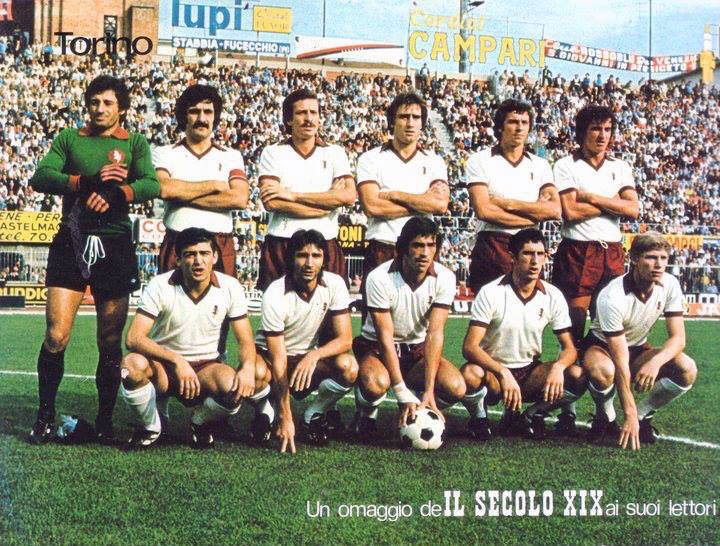 Bologna (Italy), Communal Stadium, October 5, 1975. A line-up of A.C. Torino took to the pitch in the away defeat versus Bologna F.C. (0-1), Matchday 1 of the Italian League 1975–76 Serie A. From left to right, standing: L. Castellini, C. Sala (captain), R. Zaccarelli, F. Graziani, R. Mozzini, N. Santin; crouched: E. Pecci, R. Salvadori, P. Pulici, P. Sala, F. Gorin.